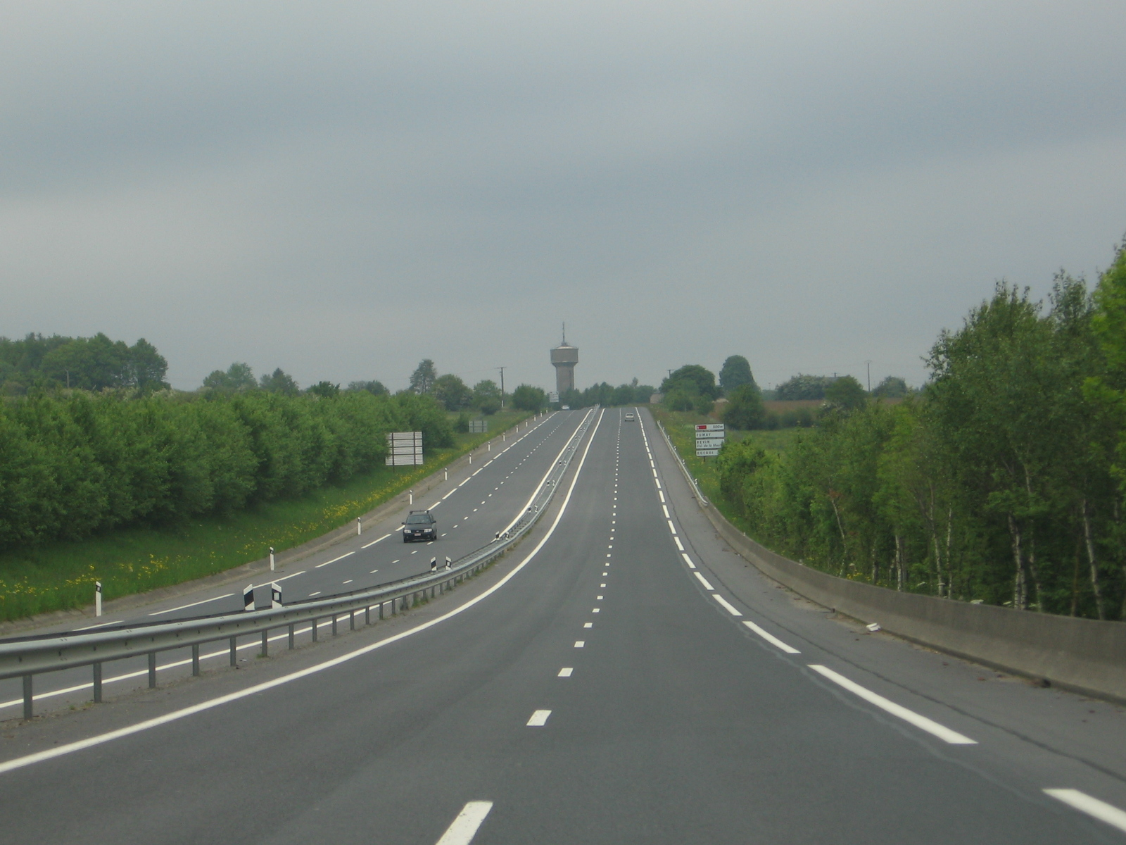 N51, Rocroy